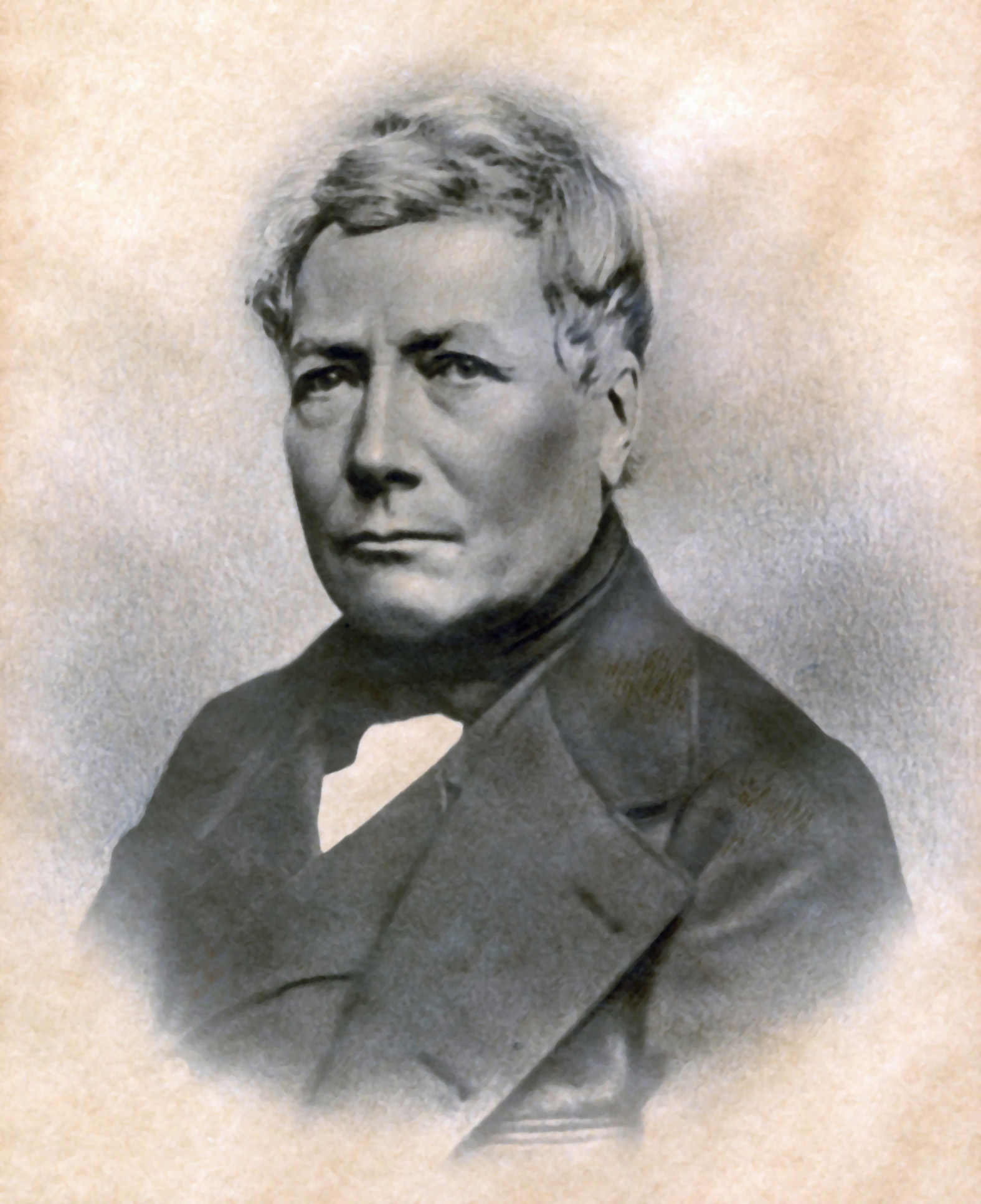 Photographic Portrait of French naturalist Jean-Baptiste Noulet. Documentation Service of the Museum of Toulouse